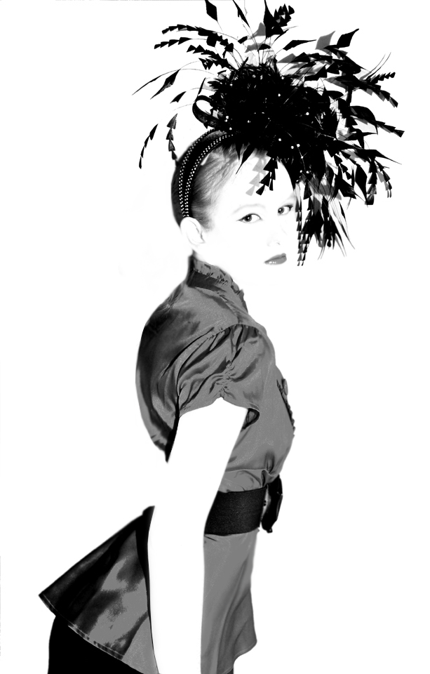 Jessica for Mr. Song Millinery wearing Luke Song's Estrella Fascinator in Black